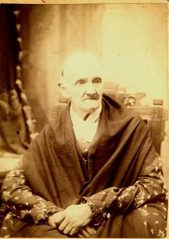 Photo of of Catherine Smith, a younger sister of Joseph Smith, Jr., founder of the Latter Day Saint movement.